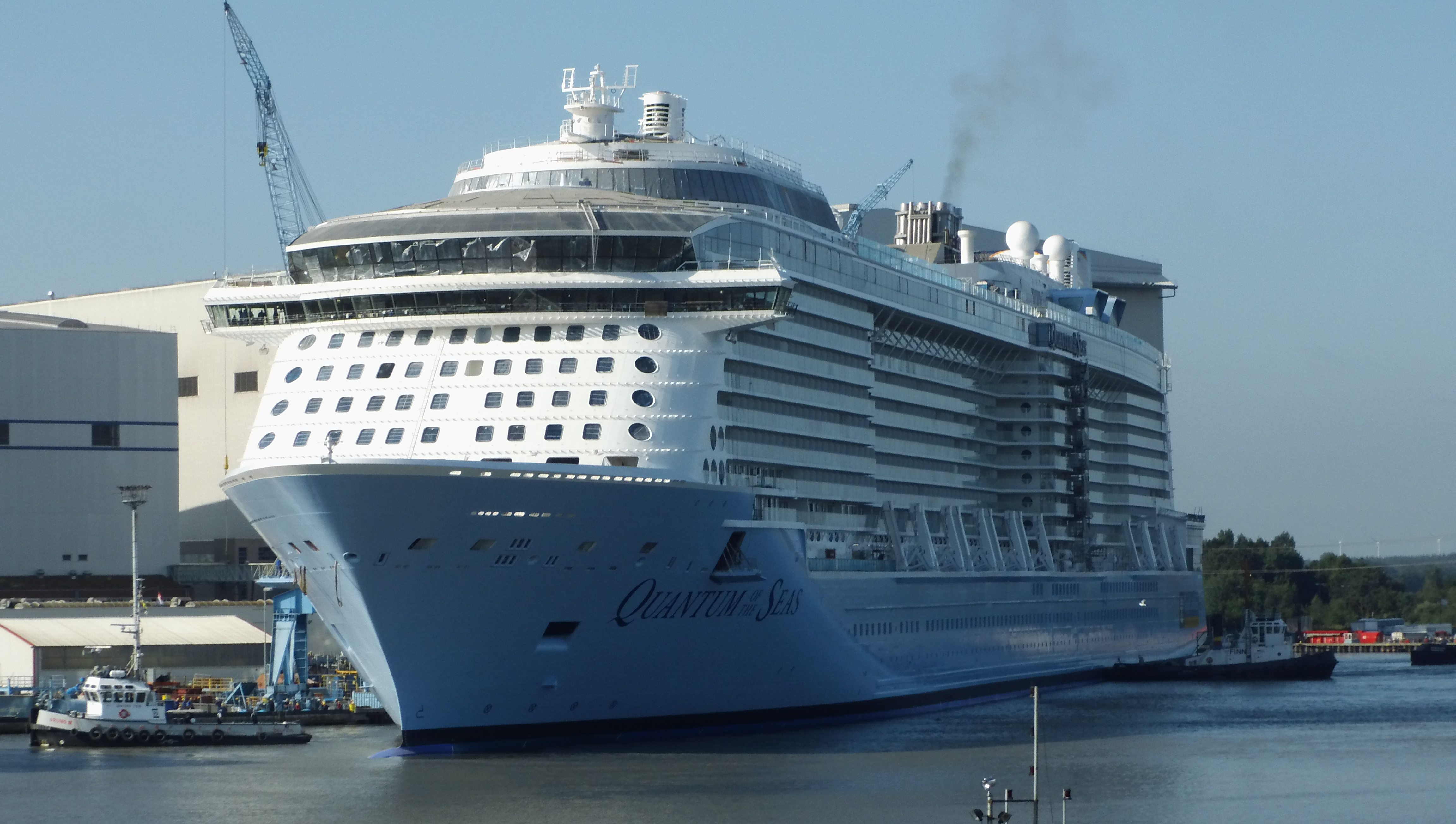 Quantum of the Seas in front of Hall 6, Meyer Werft, Germany